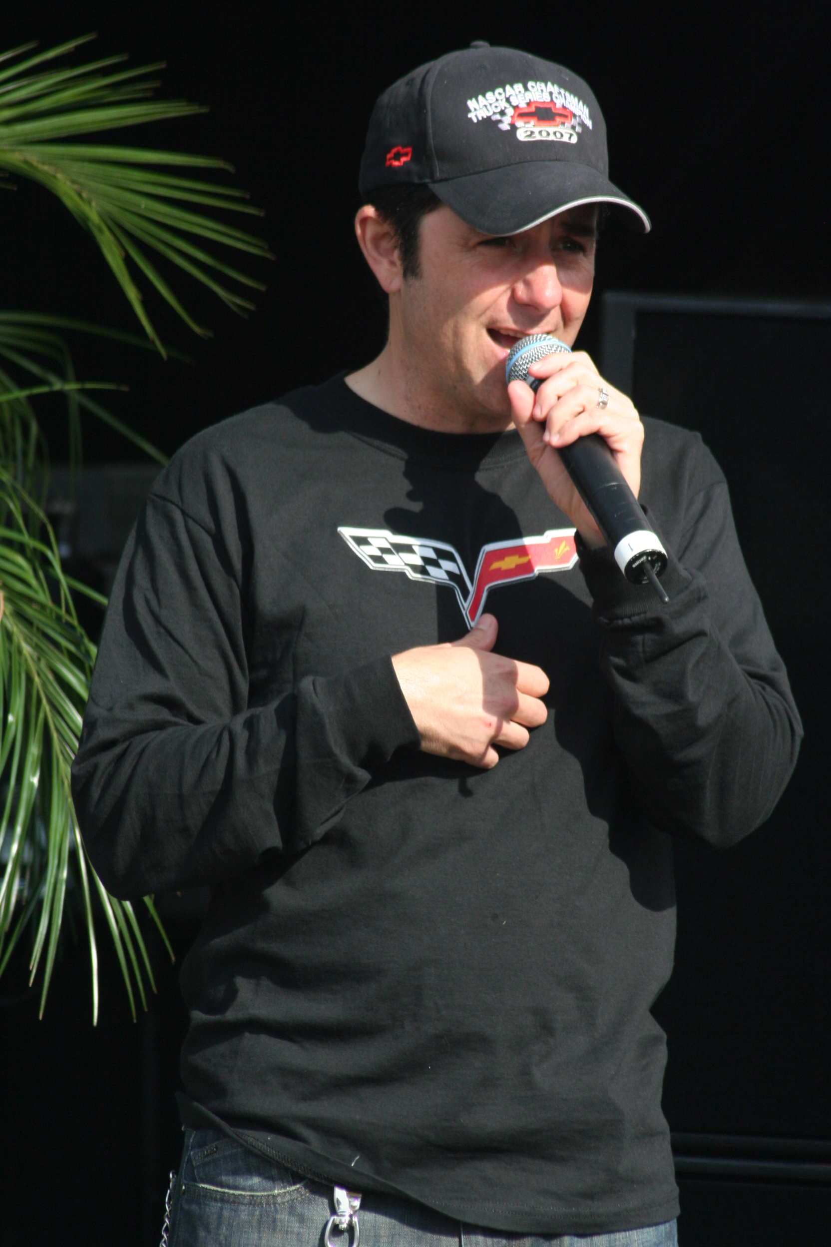 MTV VJ/Personality Riki Rachtman. Shot by The Daredevil at Daytona during Speedweeks 2008